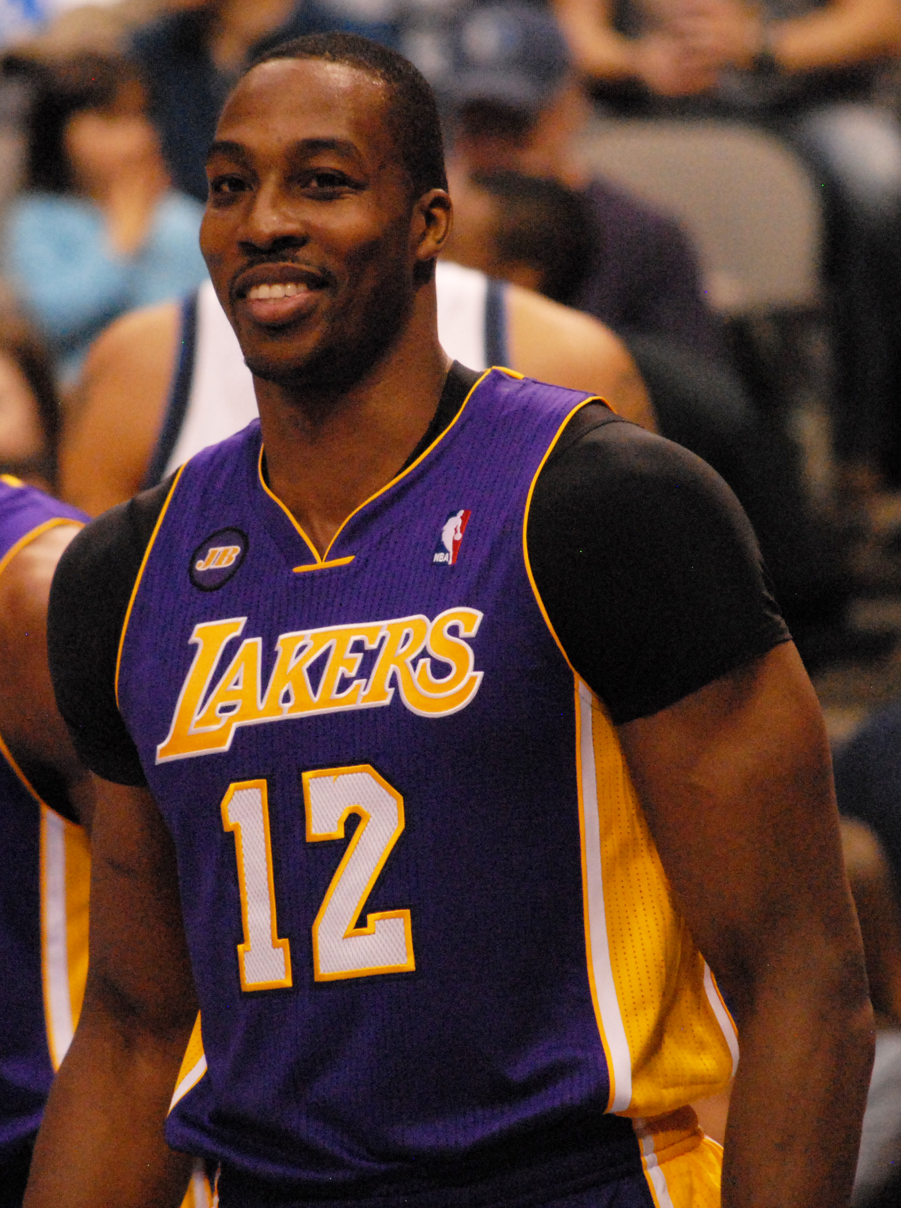 Dwight Howard